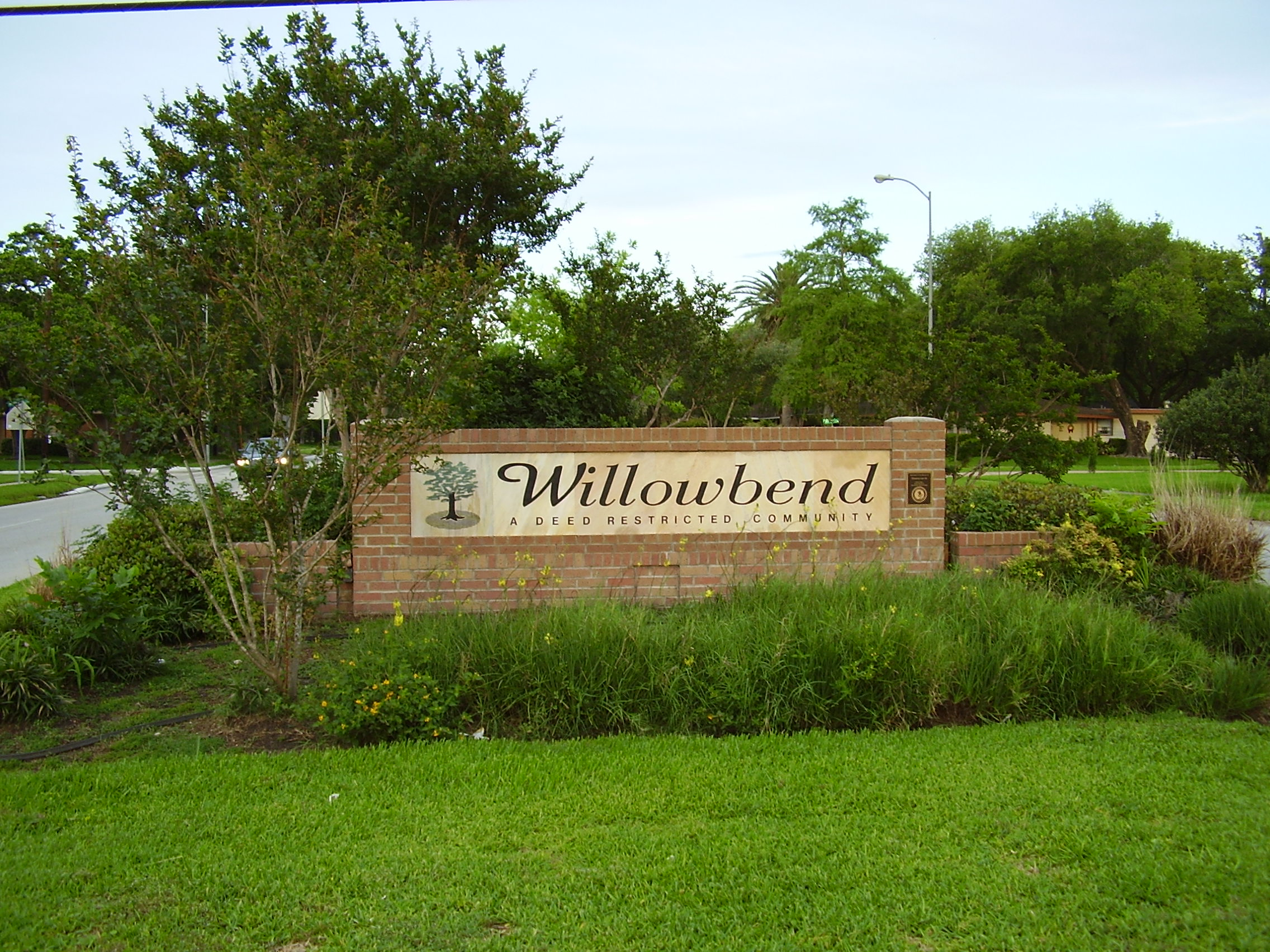 Willowbend subdivision marker